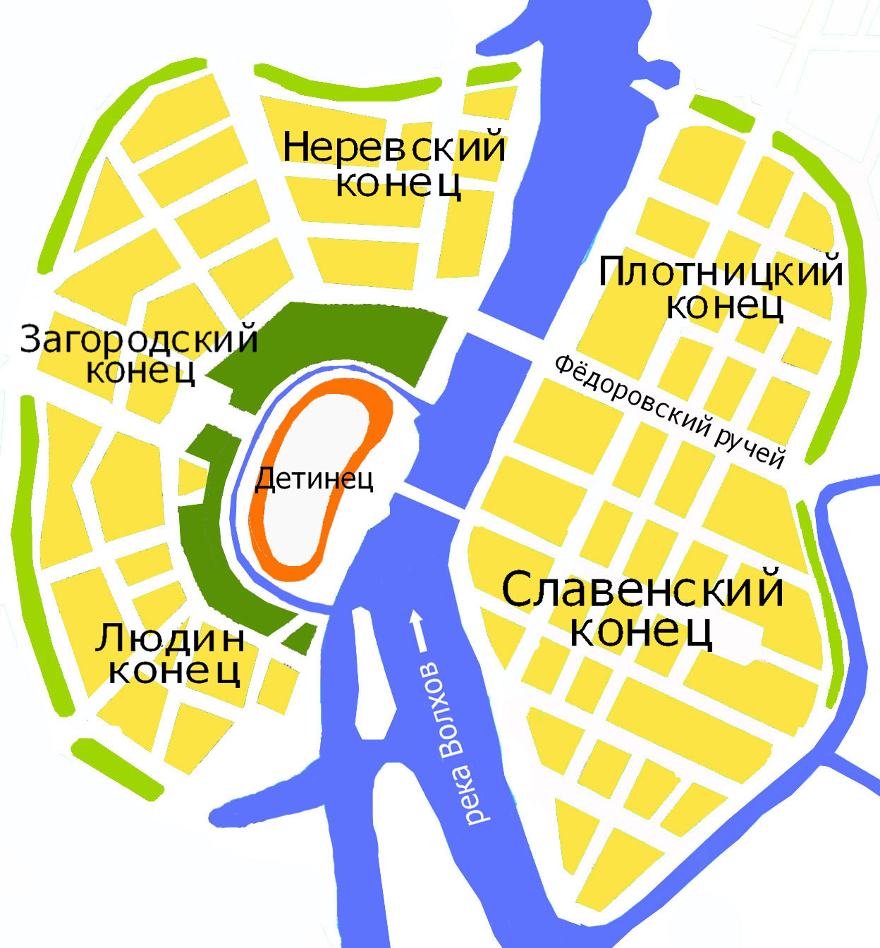 Ancient quarters of Veliky Novgorod